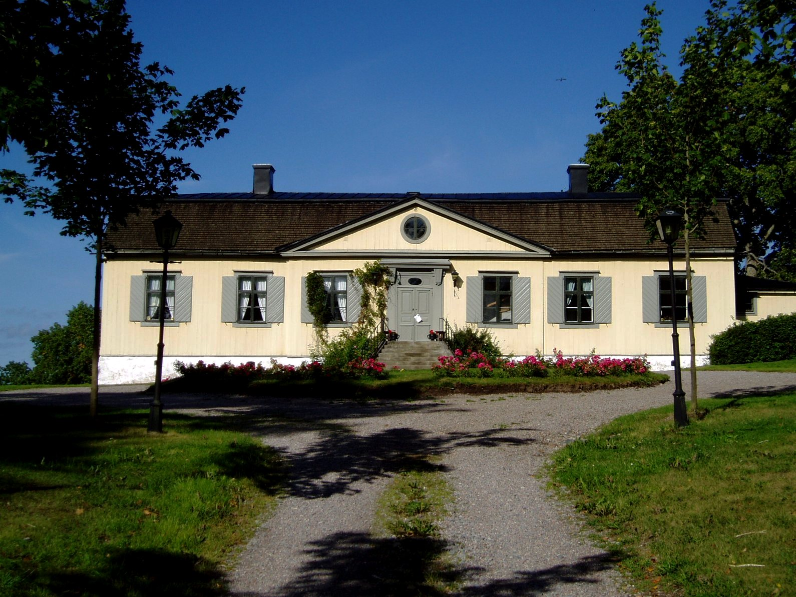 Näs mansion, Norrtälje municipality, Sweden